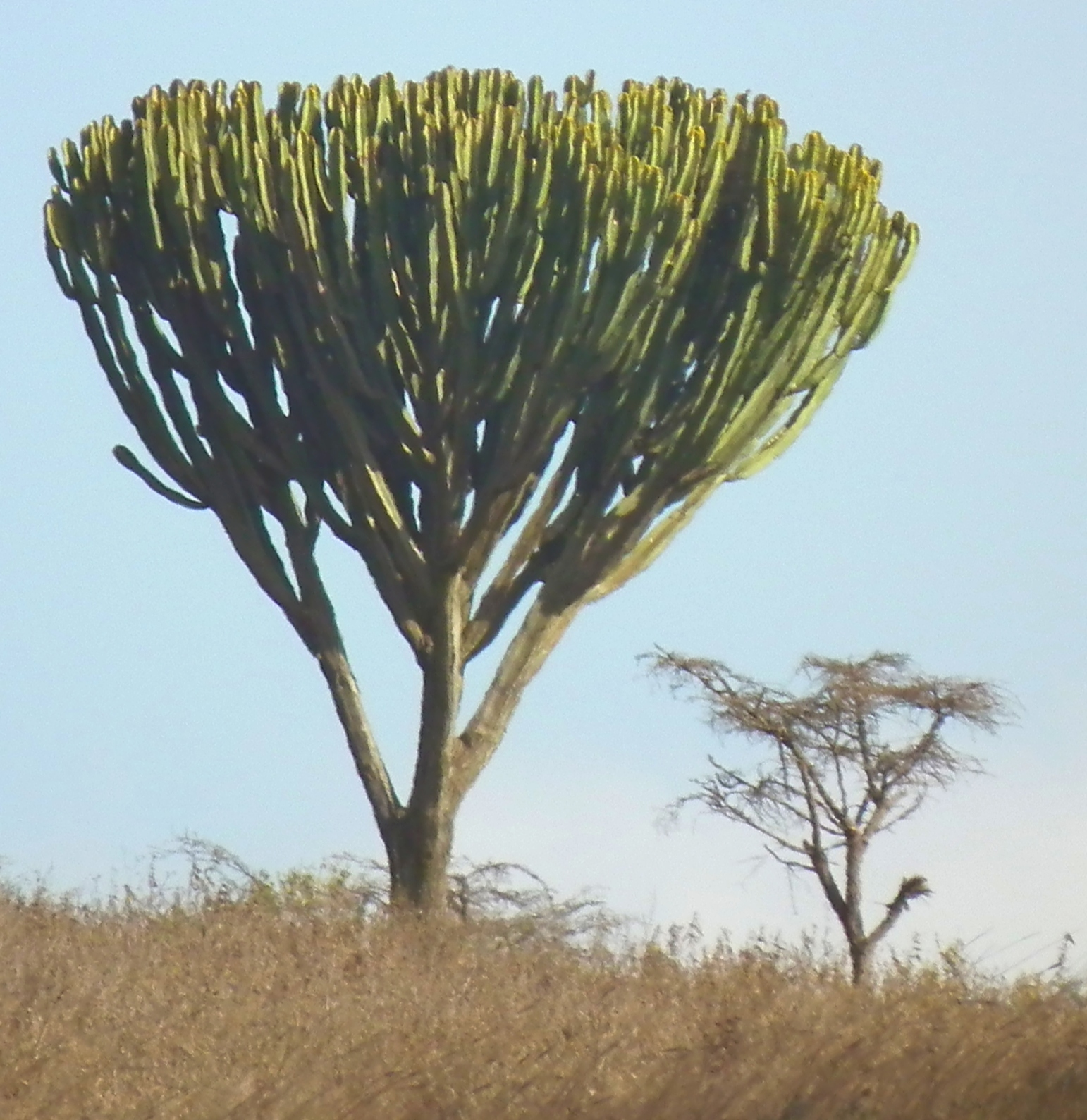 Candelabra tree (Euphorbia candelabrum), picture taken at, Northern Tanzania